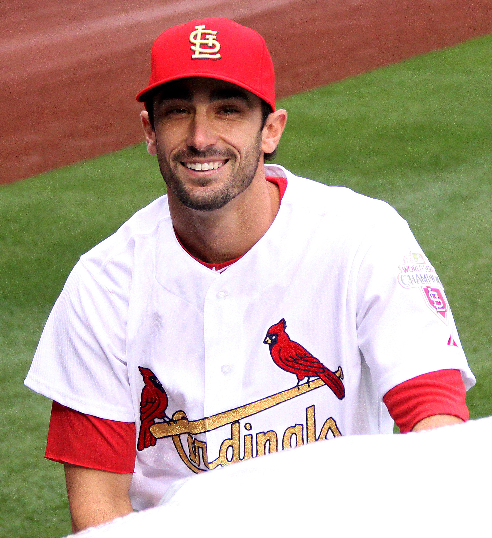 St. Louis Cardinals 3rd baseman Matt Carpenter